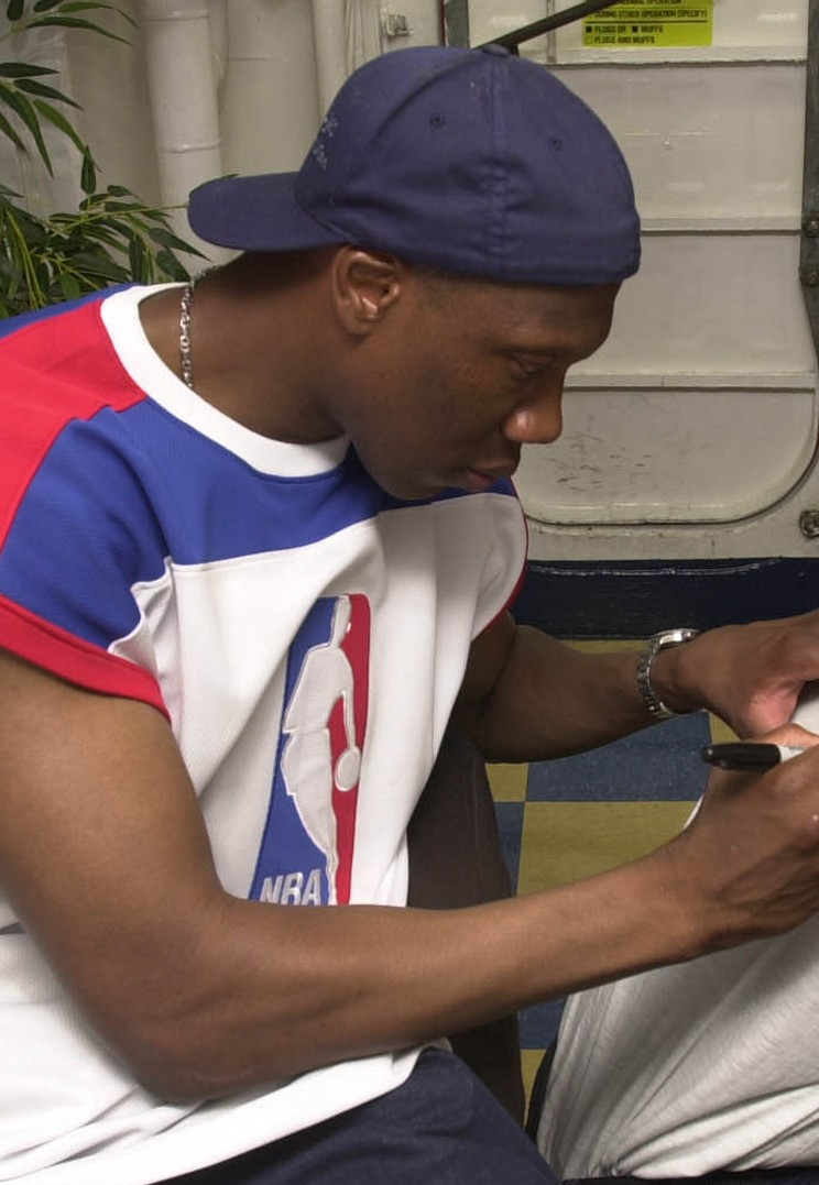 030619-N-7849S-004 The Arabian Gulf (Jun. 19, 2003) -- National Basketball Association (NBA) Player Ervin Johnson of the Milwaukee Bucks autographs the T-Shirt of Aviation Maintenance Adminstrationman 2nd Class Bates during a recent United Services Organization (USO) tour aboard USS Nimitz (CVN 68). Nimitz Carrier Strike Group and Carrier Air Wing Eleven (CVW-11) are deployed in support of Operation Iraqi Freedom.